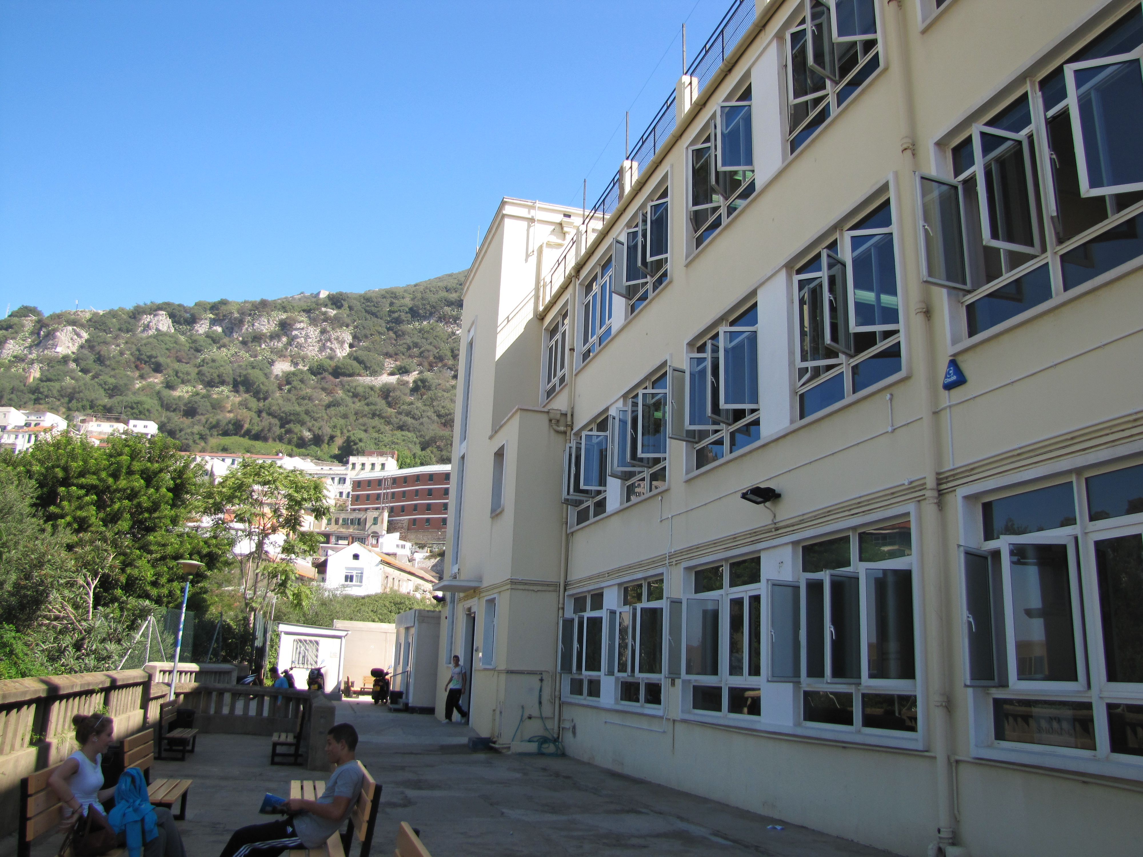 Front of the College of Further Education in Gibraltar